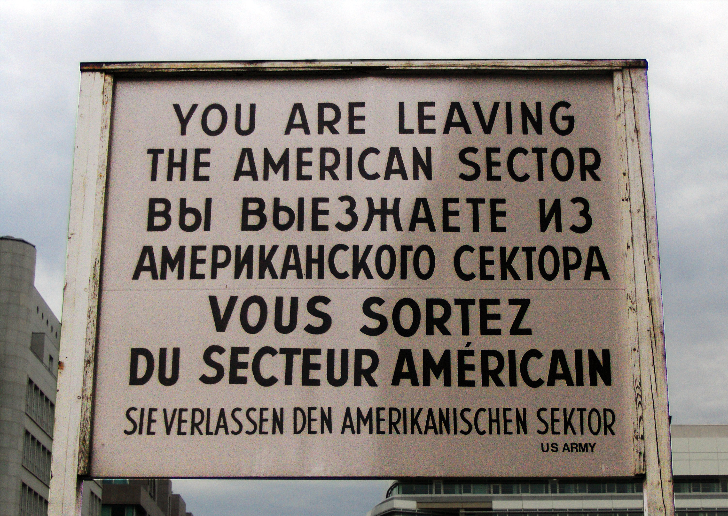 Sign at Checkpoint Charlie in Berlin